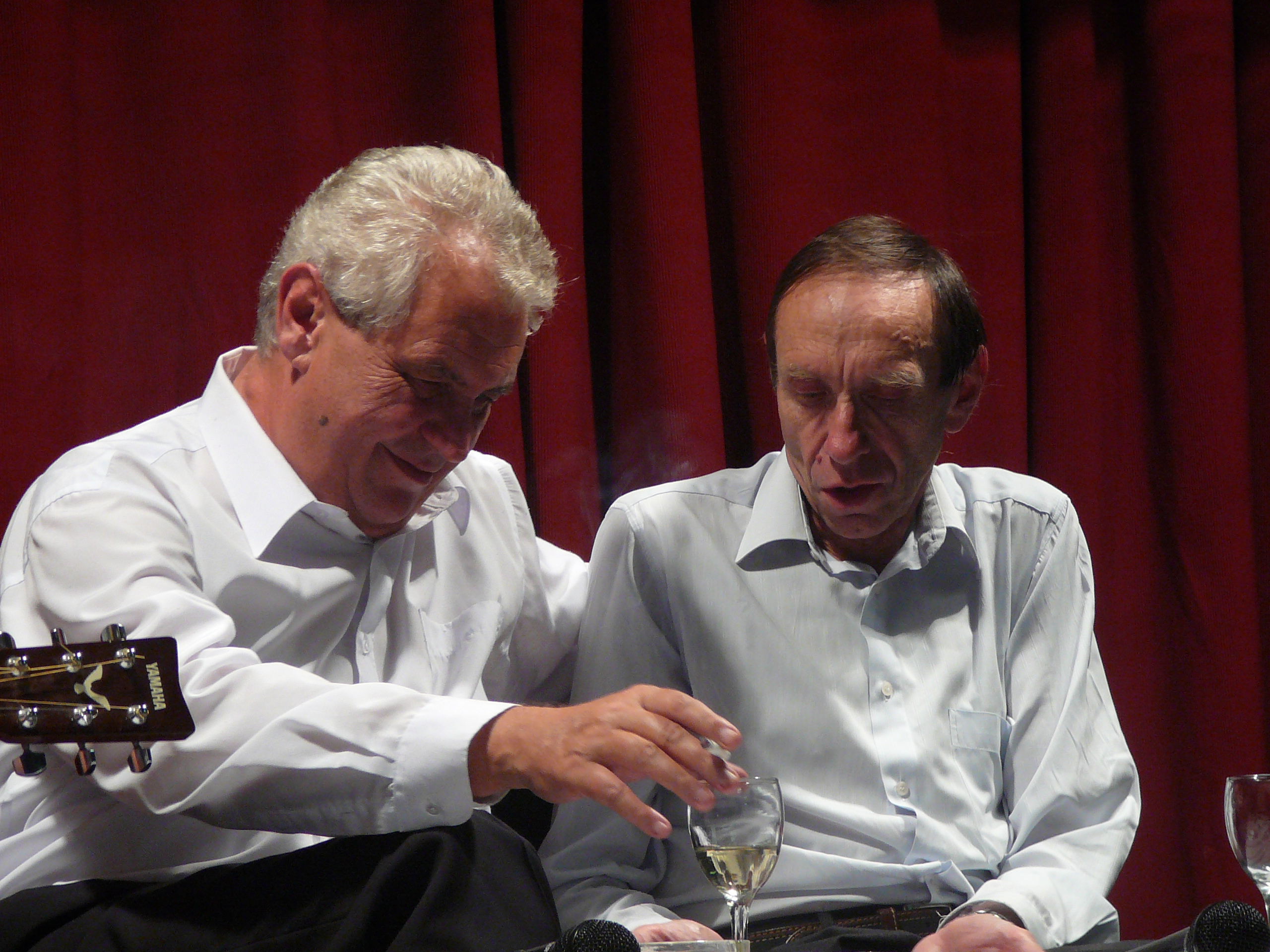 Miloš Zeman and Bohumil Fišer on the friendly meeting in Brno in club Šelepova No 1, 2008